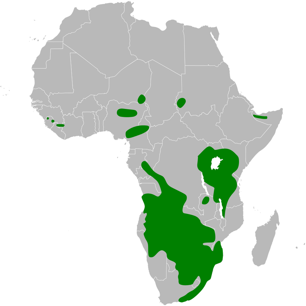 Mirafra africana distribution map; using BlankMap-Africa.svg, based on Keith, Stuart; Urban, Emil K.; Fry, C. Hilary (1992). The Birds of Africa, Volume IV. Academic Press. p. 22 BirdLife Datazone Factsheet Handbook of the Birds of the World, including range descriptions for races Avibase/Clements, for range descriptions of races SABAP 1, for southern Africa excluding Mozambique Mozambique Bird Atlas Project for Mozambique (publ. 2000/2005 & Roberts Birds 7th ed.)